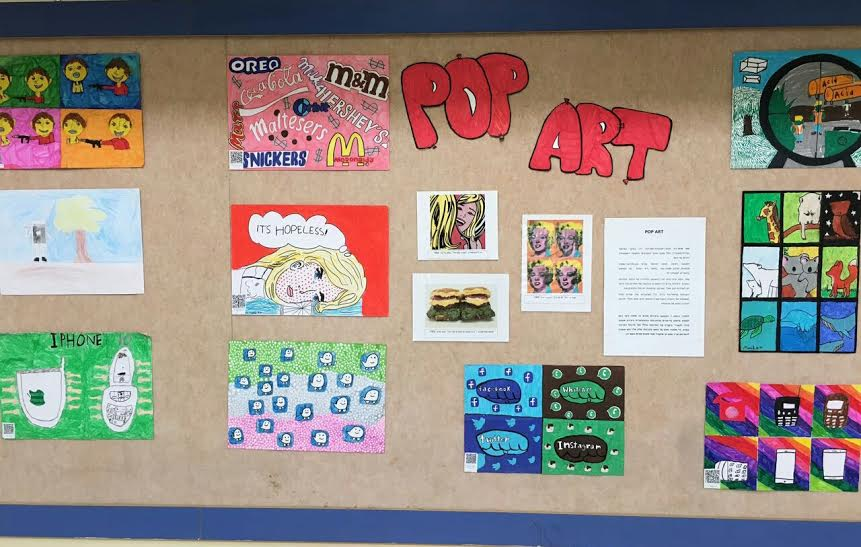 Children's pop art work in Tel Aviv.